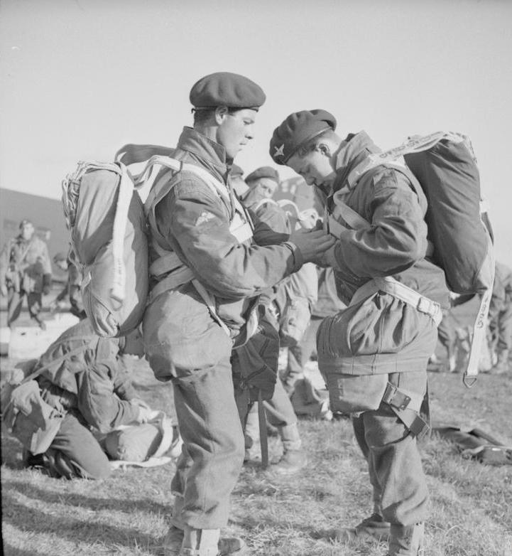 Paratroopers adjust their parachute harnesses during a large-scale airborne forces exercise, 22 April 1944.